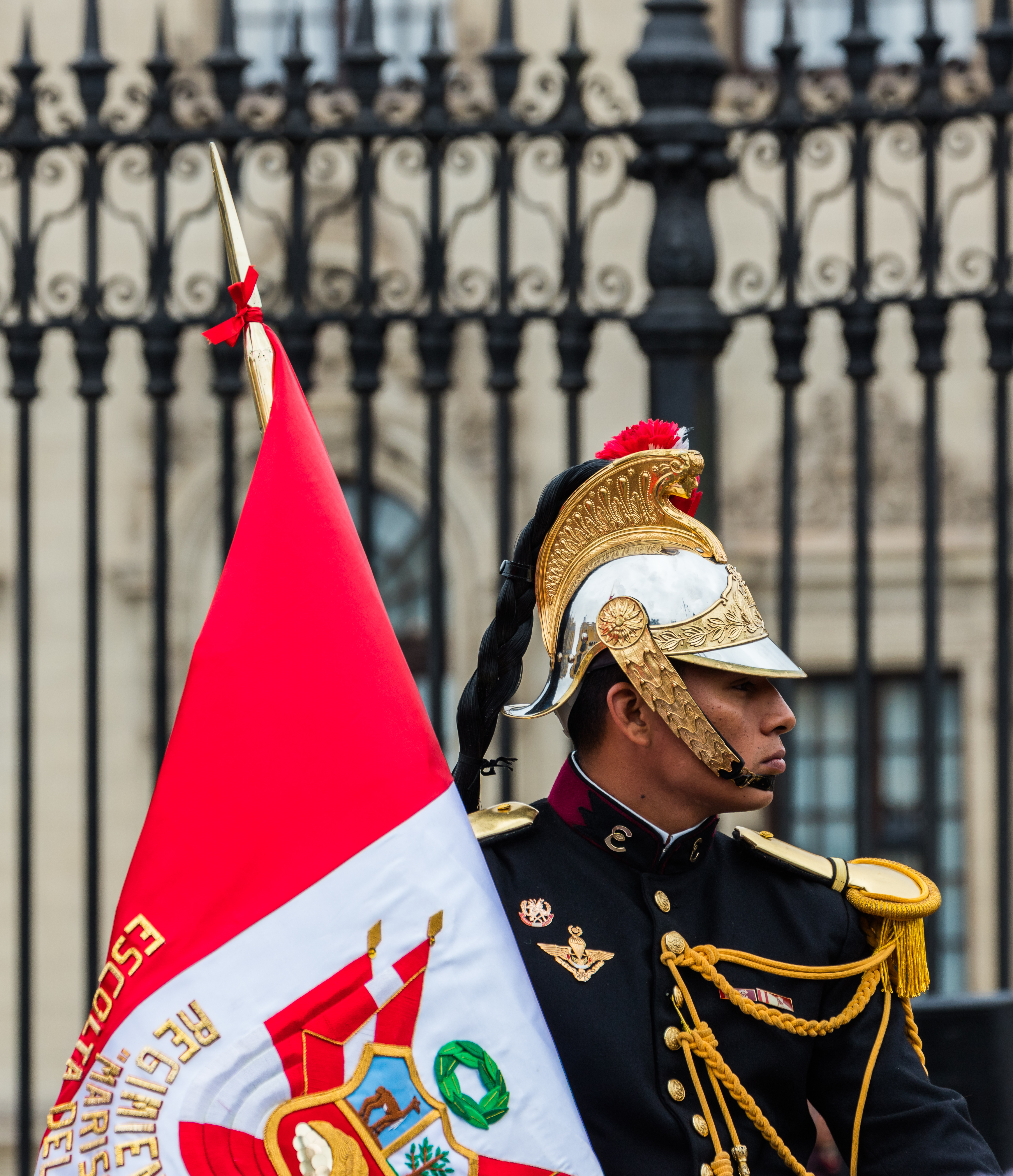 Presidential guard of Peru during Peru's National (Independence) Day in front of the Government Palace, Plaza de Armas, Lima, Peru.